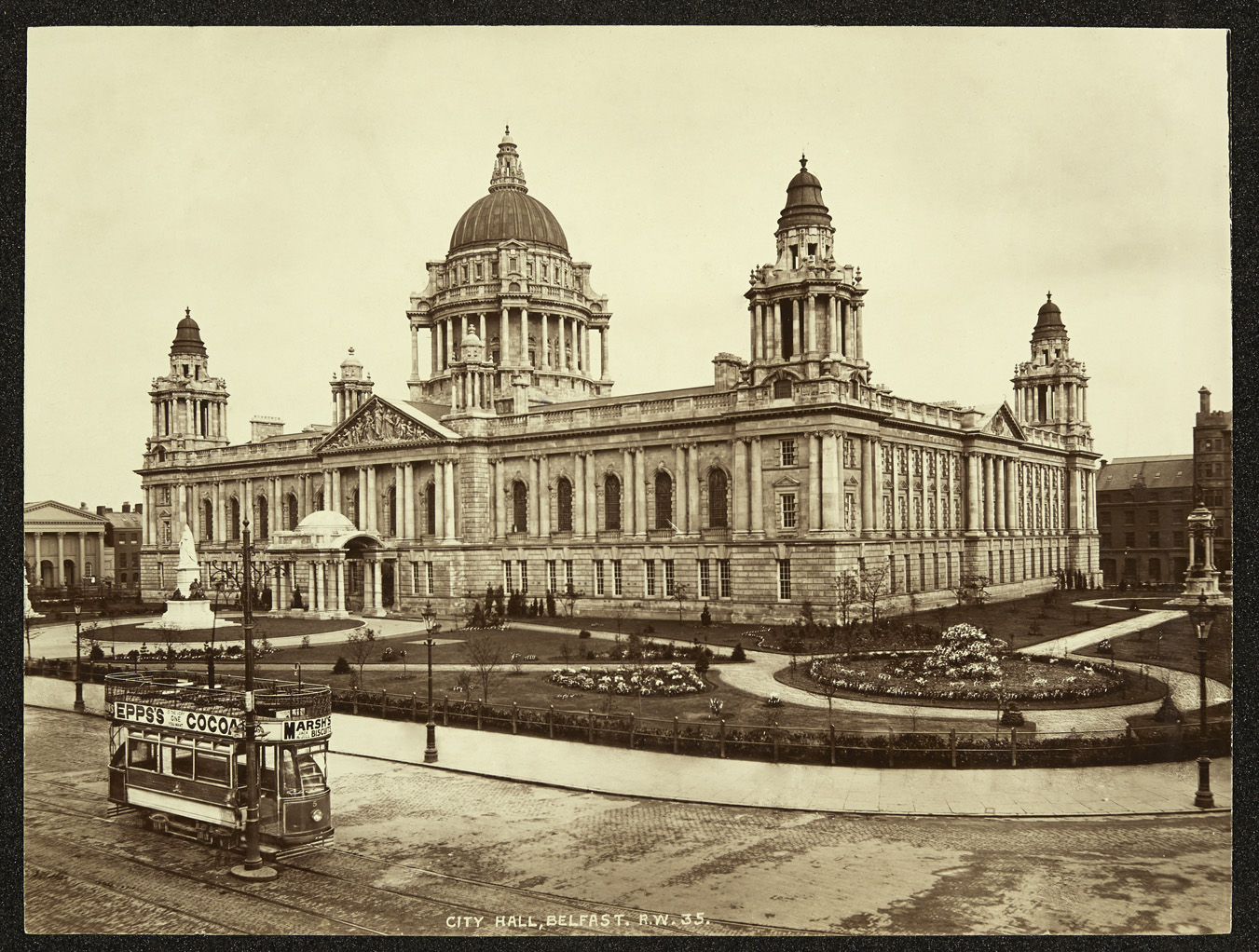 Creator: R. Welch (Photographer) Date: 1914 Original Format: Photographic Print Description: City Hall, Belfast PRONI Ref: D1403_2~001~A Copying and copyright: Please For Copy Orders, contact: For fees and charges